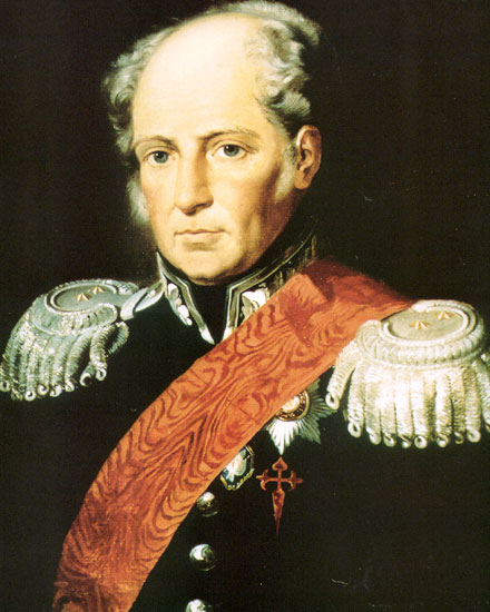 Augustin de Betancourt (1758-1825), Spanish engineer, shown in Russian attire. 1810s portrait.